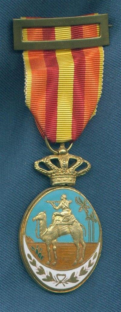 Ifni-Sahara Campaign Medal Unknown